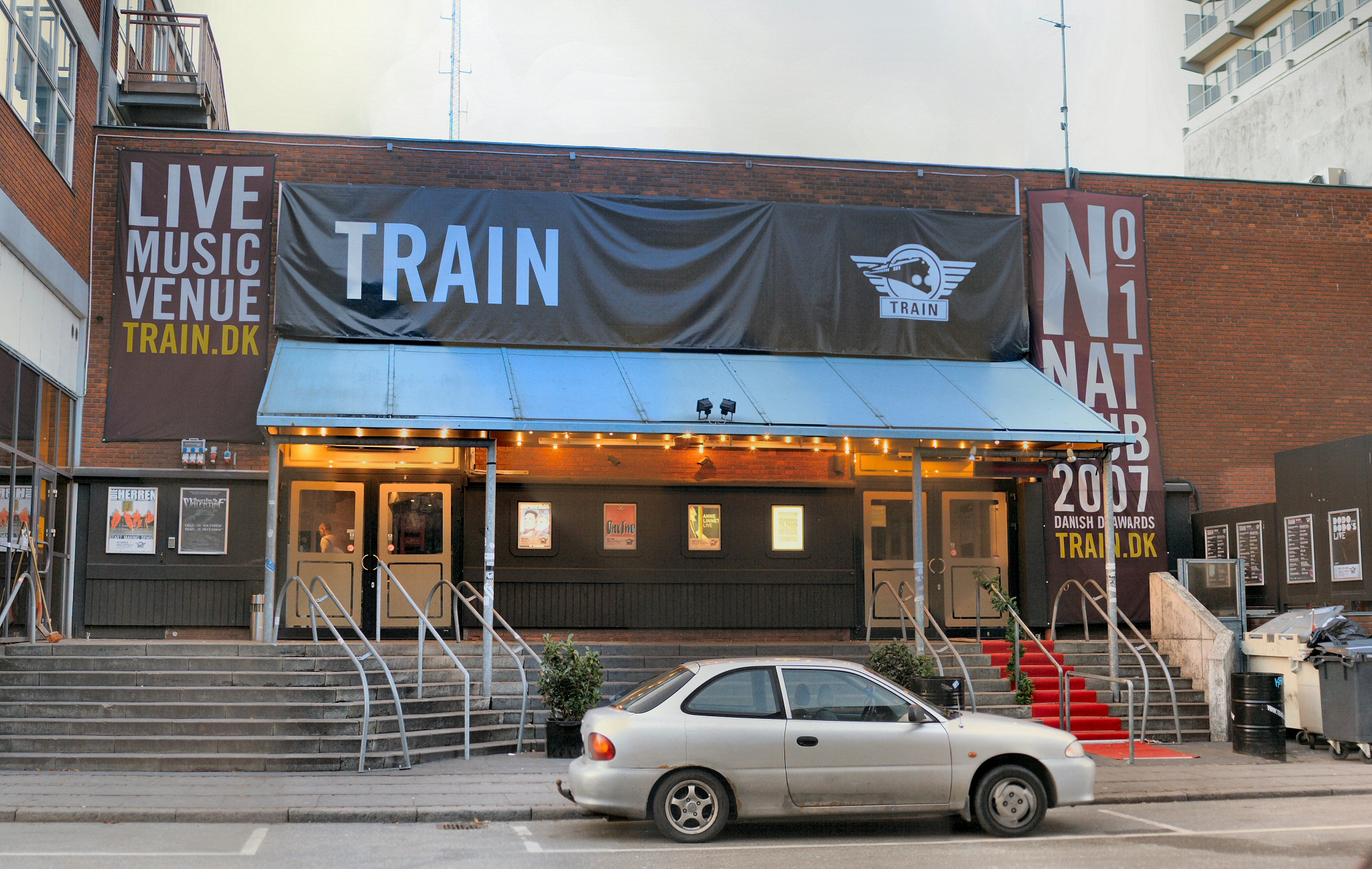 Entrance to the venue "Train" in Århus, Denmark